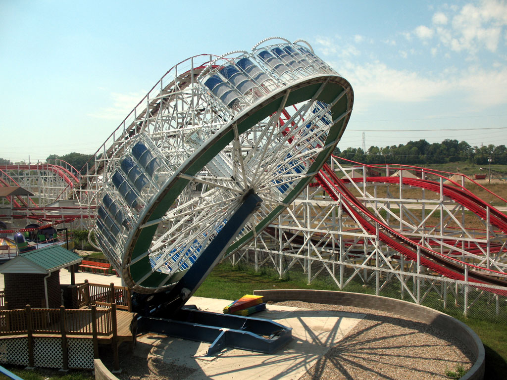 A Round up amusement ride at Stricker's Grove. Taken August 2007